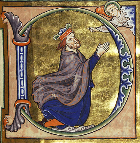 Initial D from a French Psalter, John Paul Getty Museum, Los Angeles, Ms 66